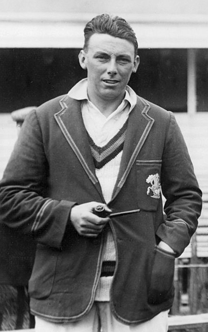 Cricketer Maurice Tate at Wisbech